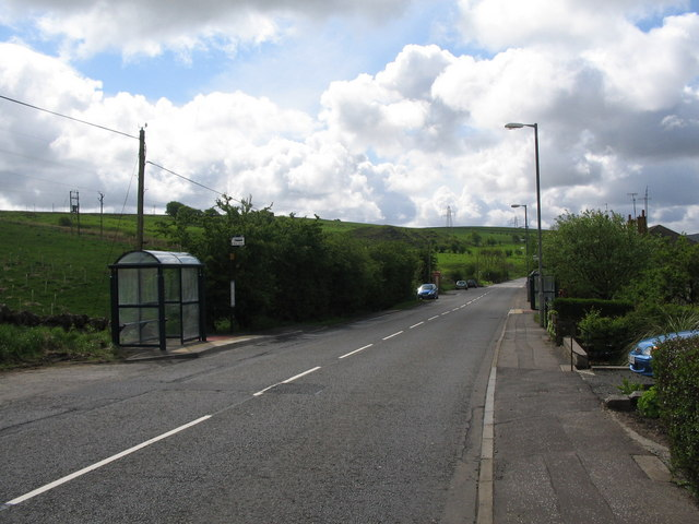 A713 at Polnessan. A view looking south along the A713 at Polnessan.